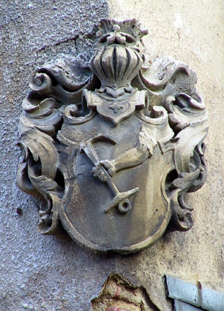 Coat of Arms Fam. Lahmann at the manor house Friedrichstal Radeberg